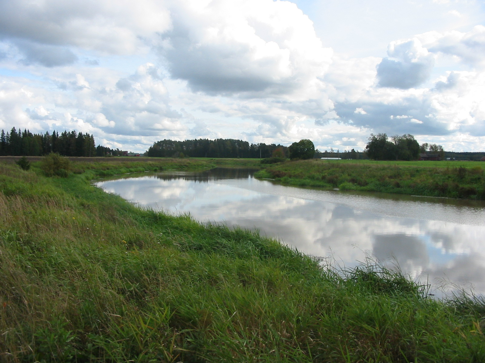 River Loimijoki in Kauhanoja, Loimaa, Finland Proper